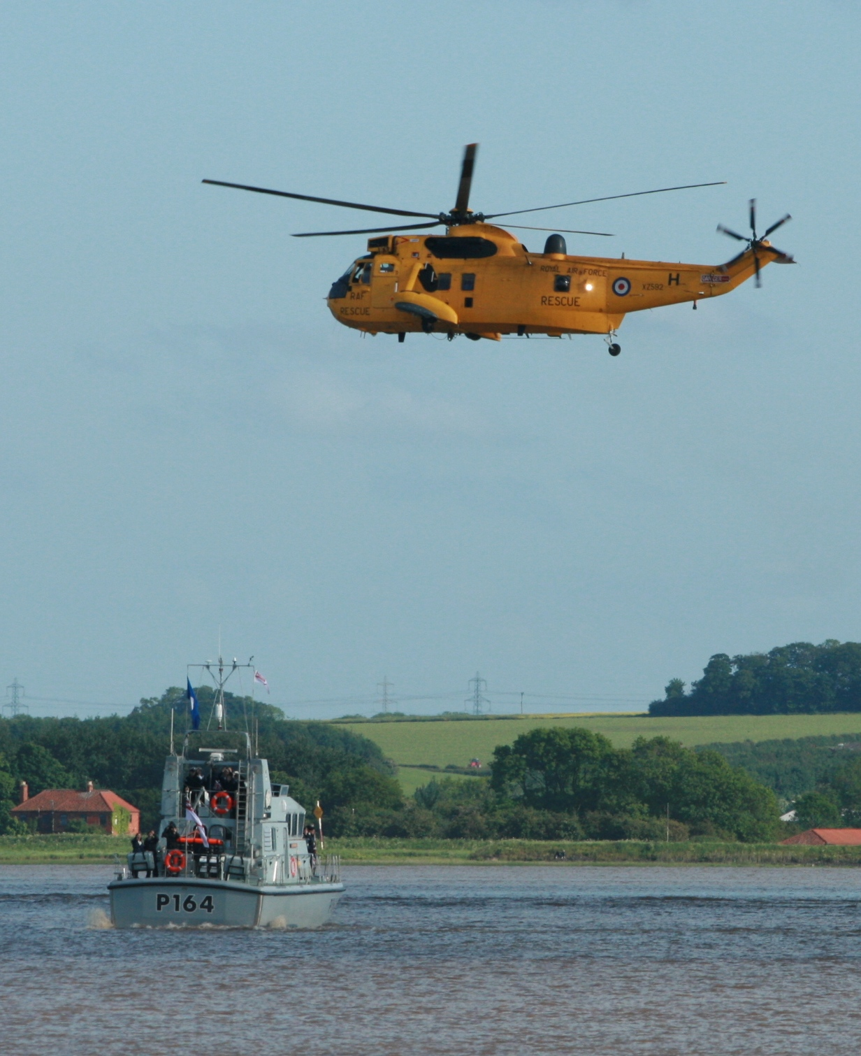 Westland Sea King helicopter of 'E' flight, No. 202 Squadron RAF and HMS Explorer (P164), Archer class patrol vessel at the celebrations of the Diamond Jubilee of Elizabeth II on 4 June 2012 at the Humber Bridge, Hessle, East Riding of Yorkshire.